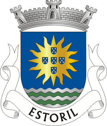 Crest of Estoril parish, Cascais municipality (Portugal)